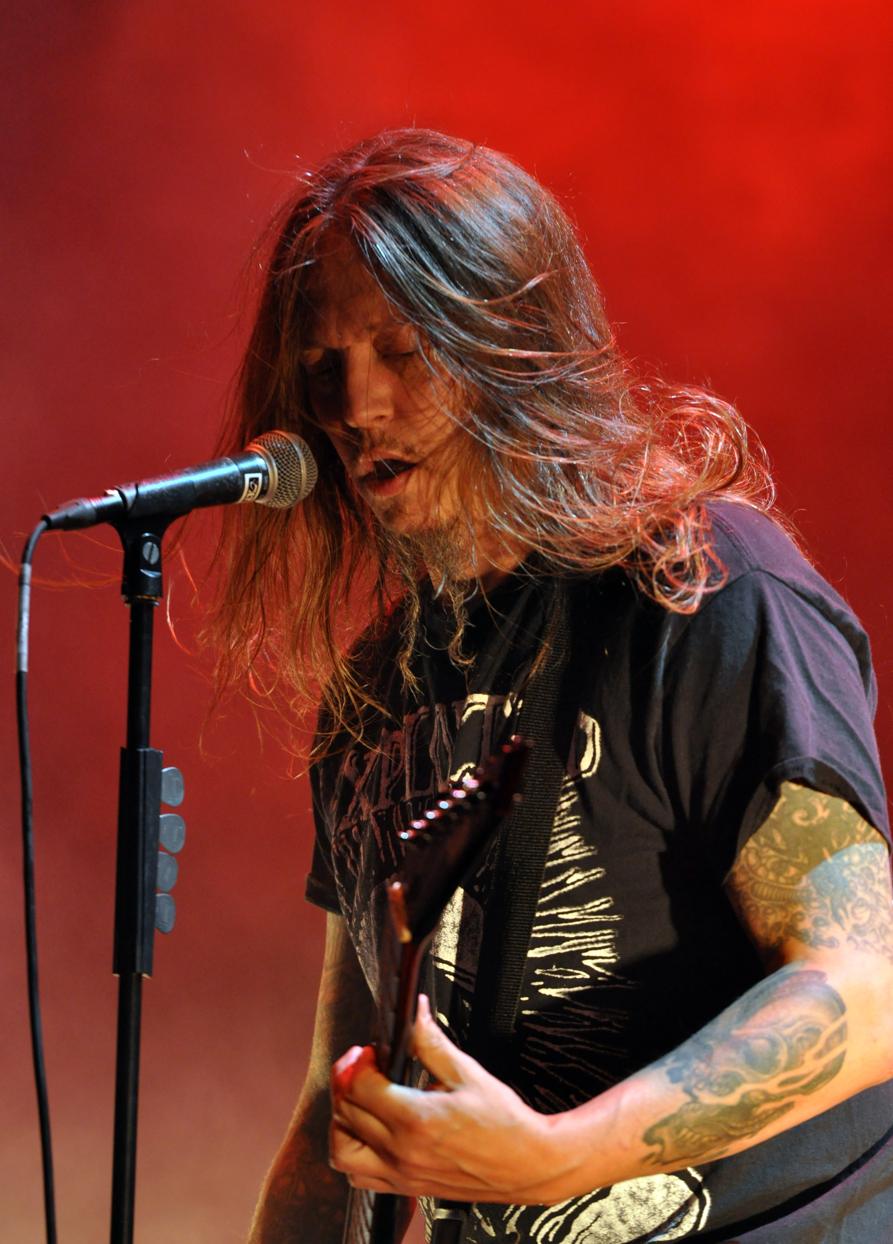 Hypocrisy at Party.San Metal Open Air 2013